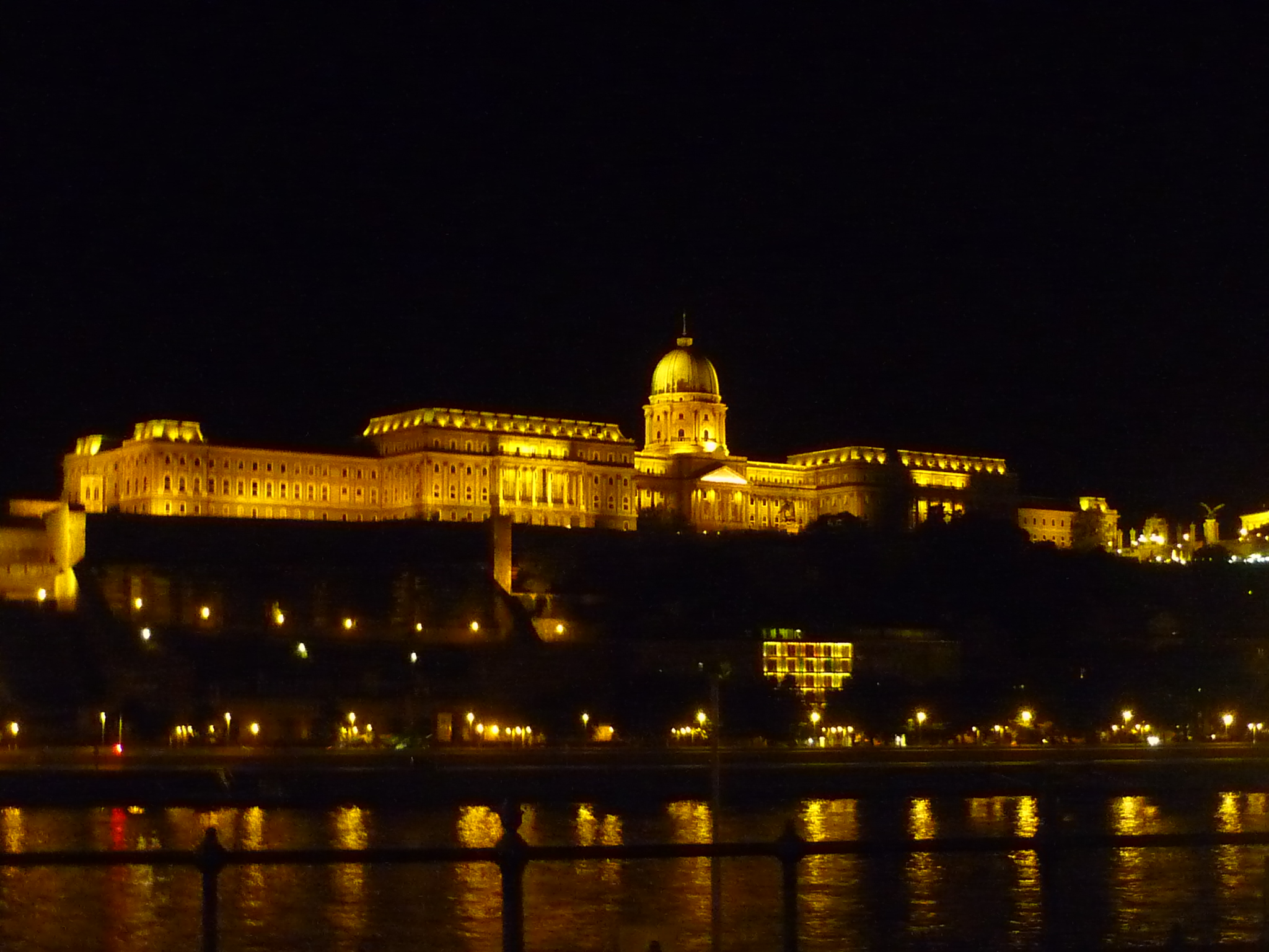 Budapest Castle by night